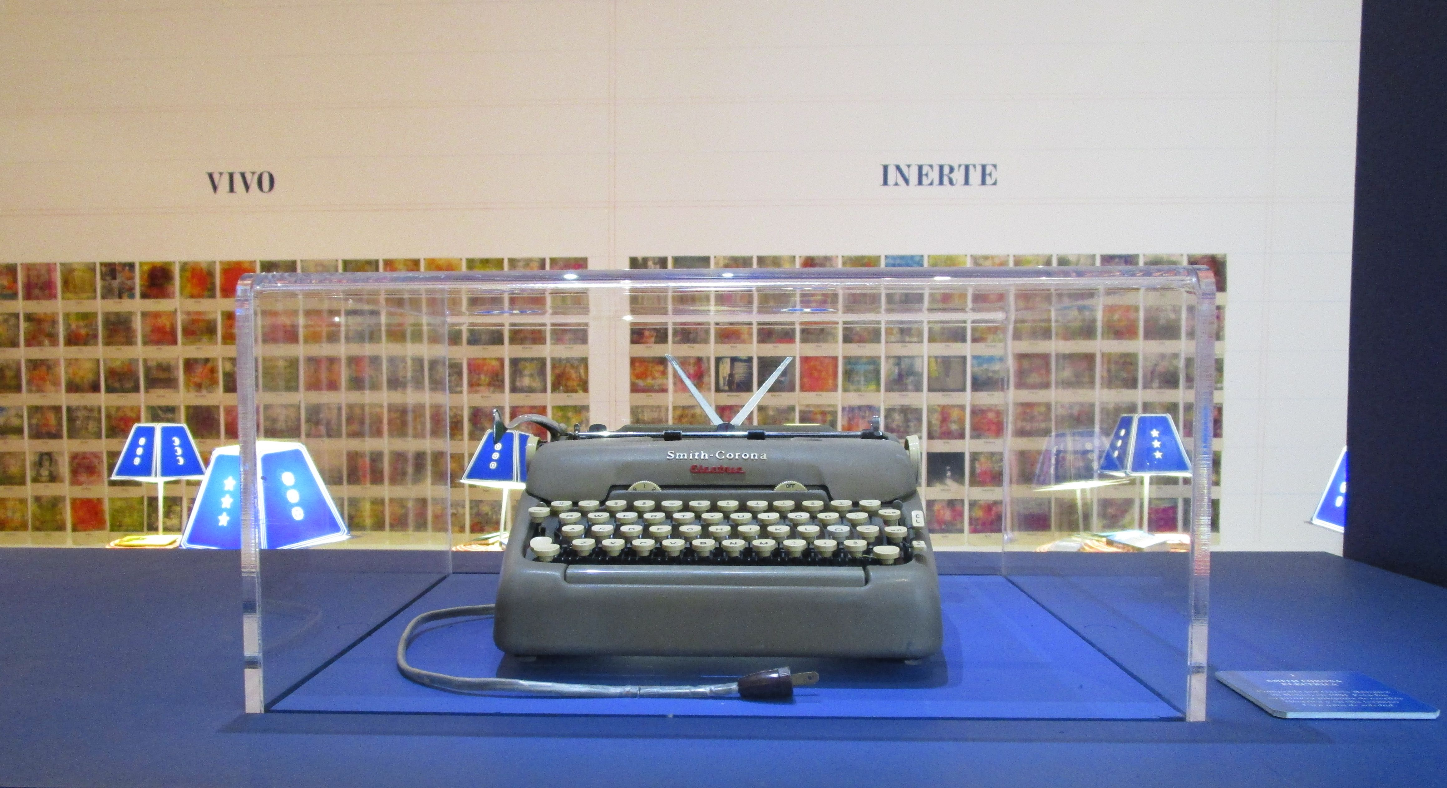 The typewriter of Gabriel García Márquez on display in the National Library of Colombia